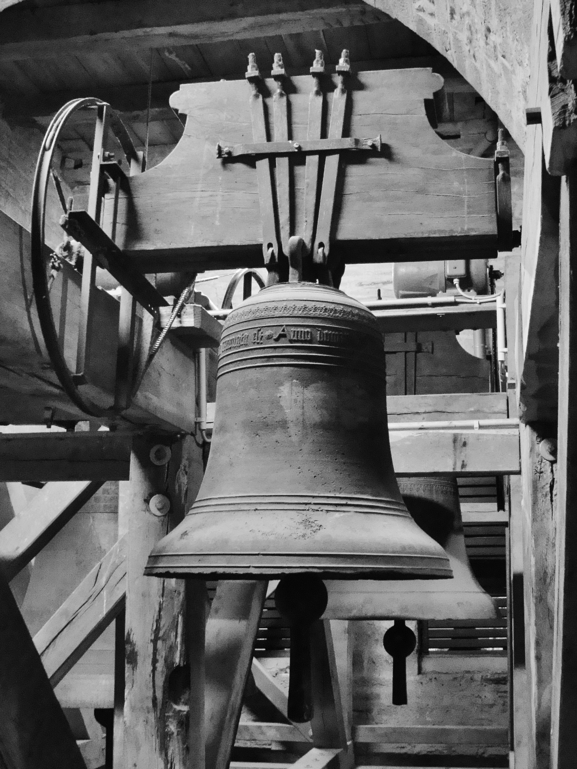 Soest, St Patroklus: bell from 1577